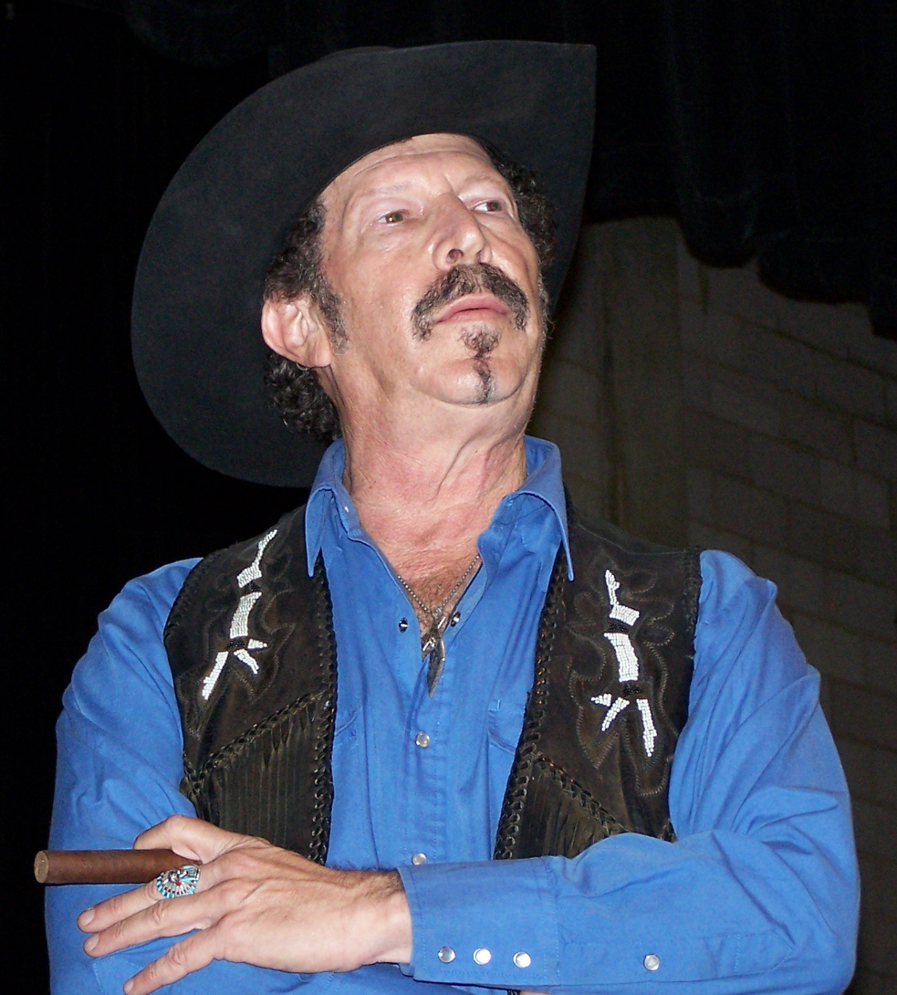 Kinky Friedman contemplates a question from the audience at a campaign rally at the Bastrop High School, West Campus Gymnasium, Bastrop, Texas, United States. Friedman was running for Governor of Texas.